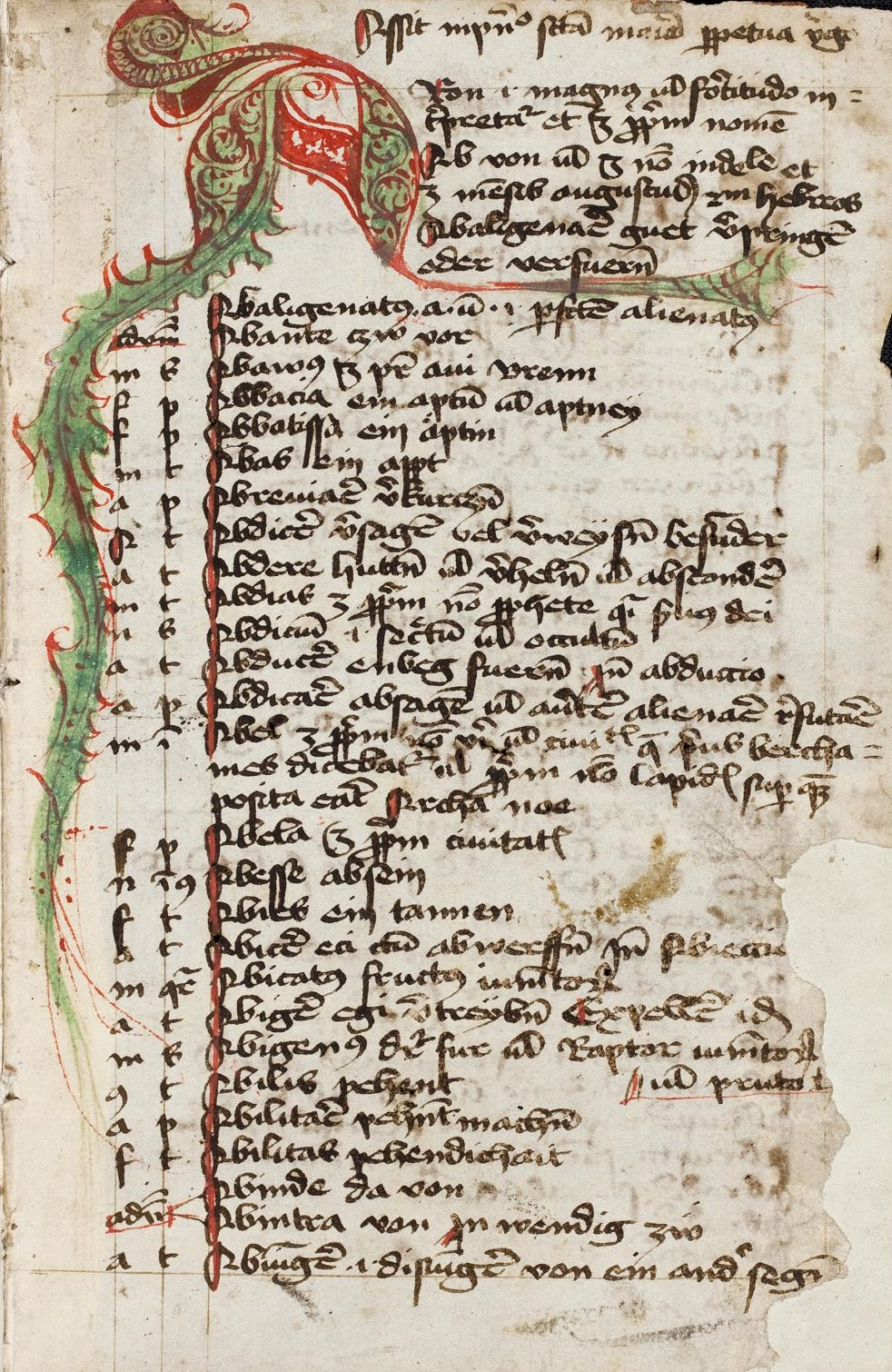 A page from a 15th century manuscript of a Latin-German dictionary, Vocabularis Ex quo. The manuscript consists of two complementary parts from 1421 and 1450. The Latin-German »Vocabularis Ex quo« was, to judge from the more than 270 surviving manuscripts and some fifty incunabula editions, the most commonly used late medieval alphabetical dictionary on German soil. It was meant by its anonymous compiler-author to enable pauperes scolares to read and literally understand the Scriptures and other Latin texts. It dates from the late 14th century and, spreading all over the then German speaking countries, kept being copied until the last decades of the 15th century.